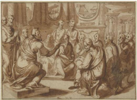 Address of St Paul in Miletus to the elderly of Ephesus (sketch)